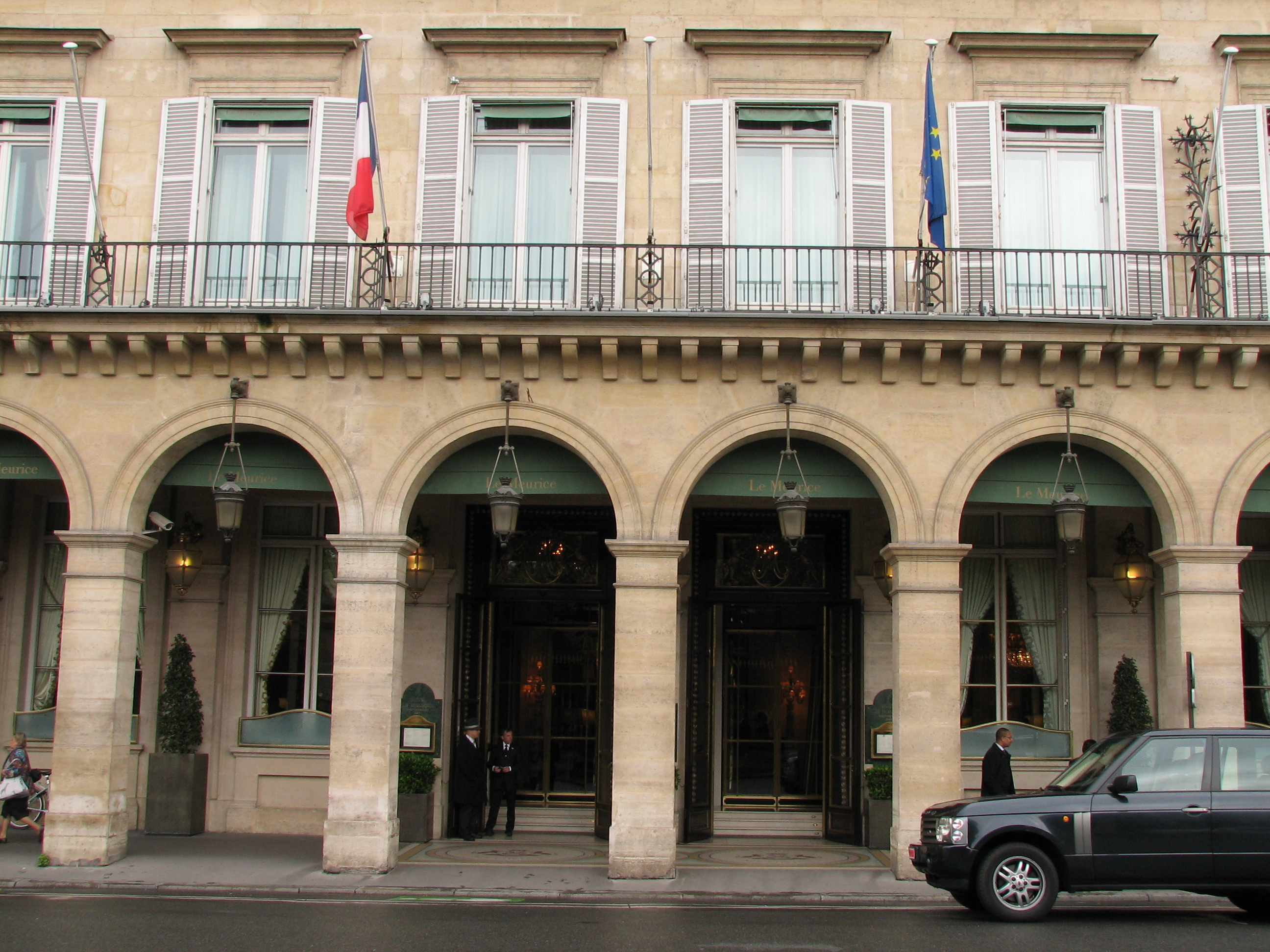 Meurice Hotel in Paris, France.